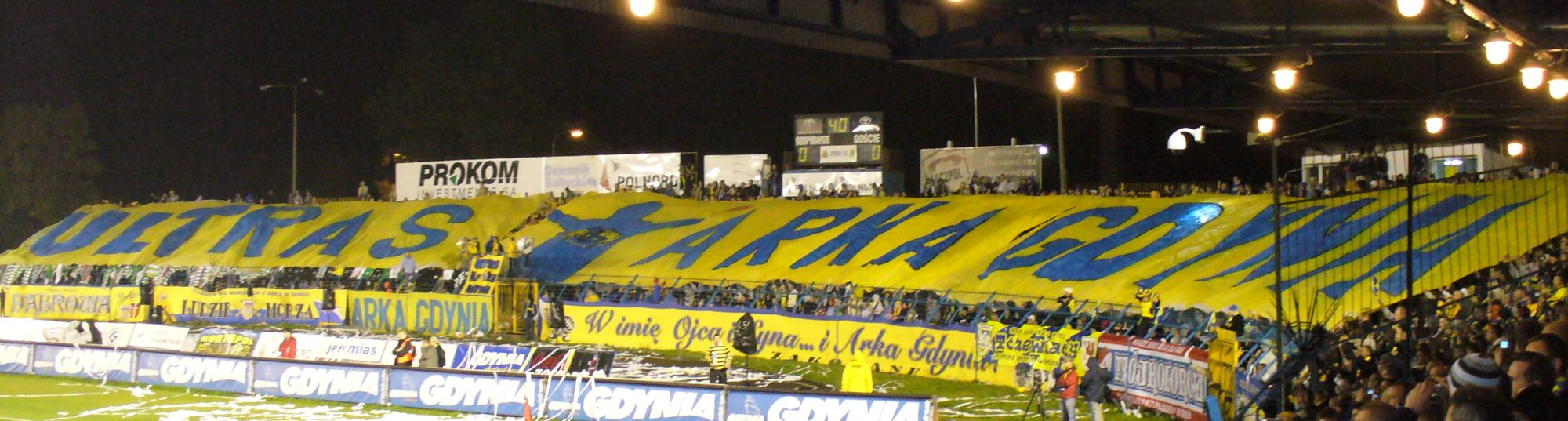 Poland, stadium GOSiR in Gdynia